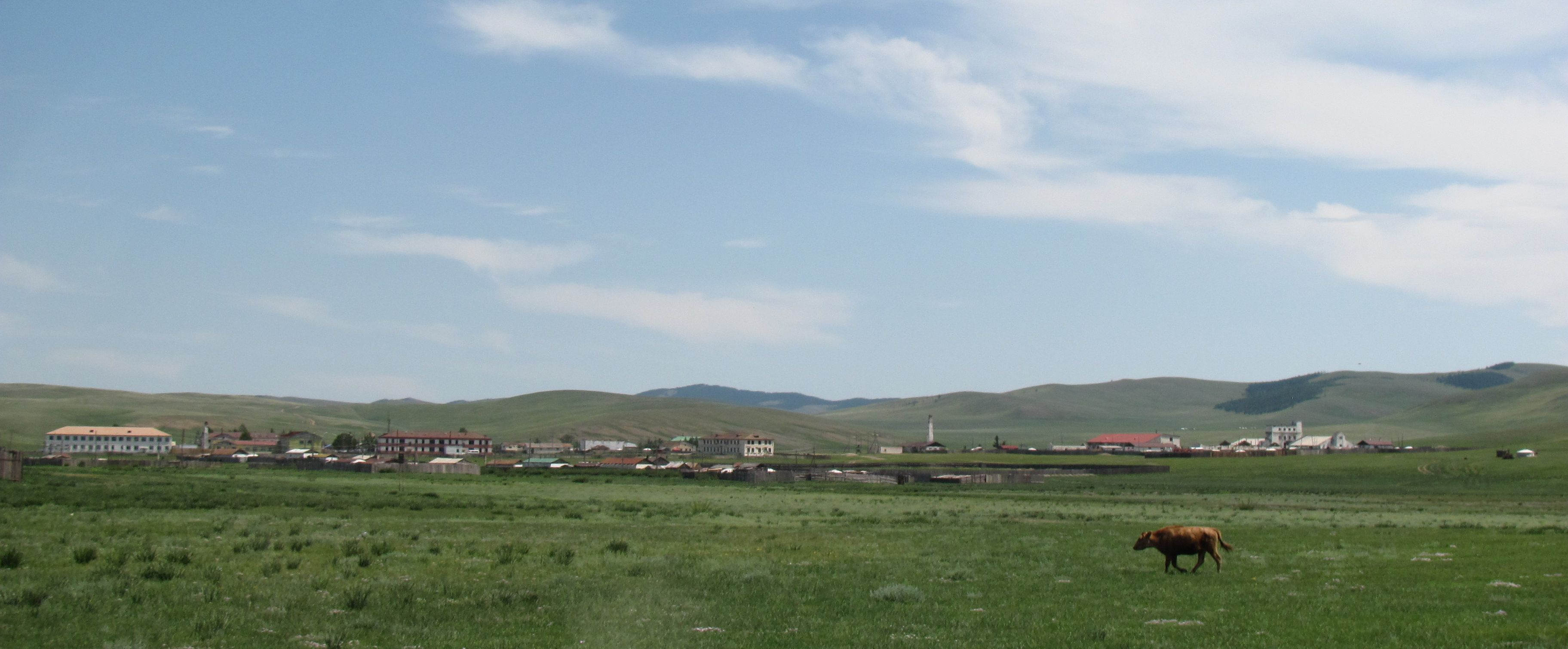 Town of Tuvchruluch, general view, Arkhangai Aimag, Mongolia